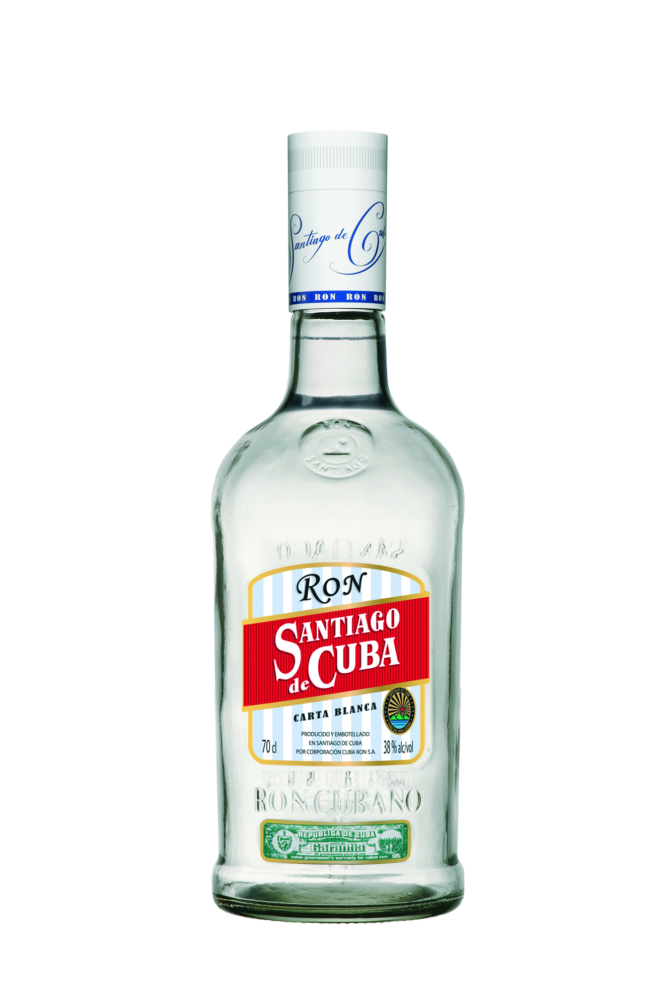 Santiago de Cuba Ron